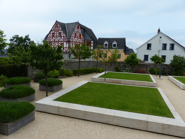 Mariengarten in Limburg an der Lahn (The bishop's garden) , june 2015